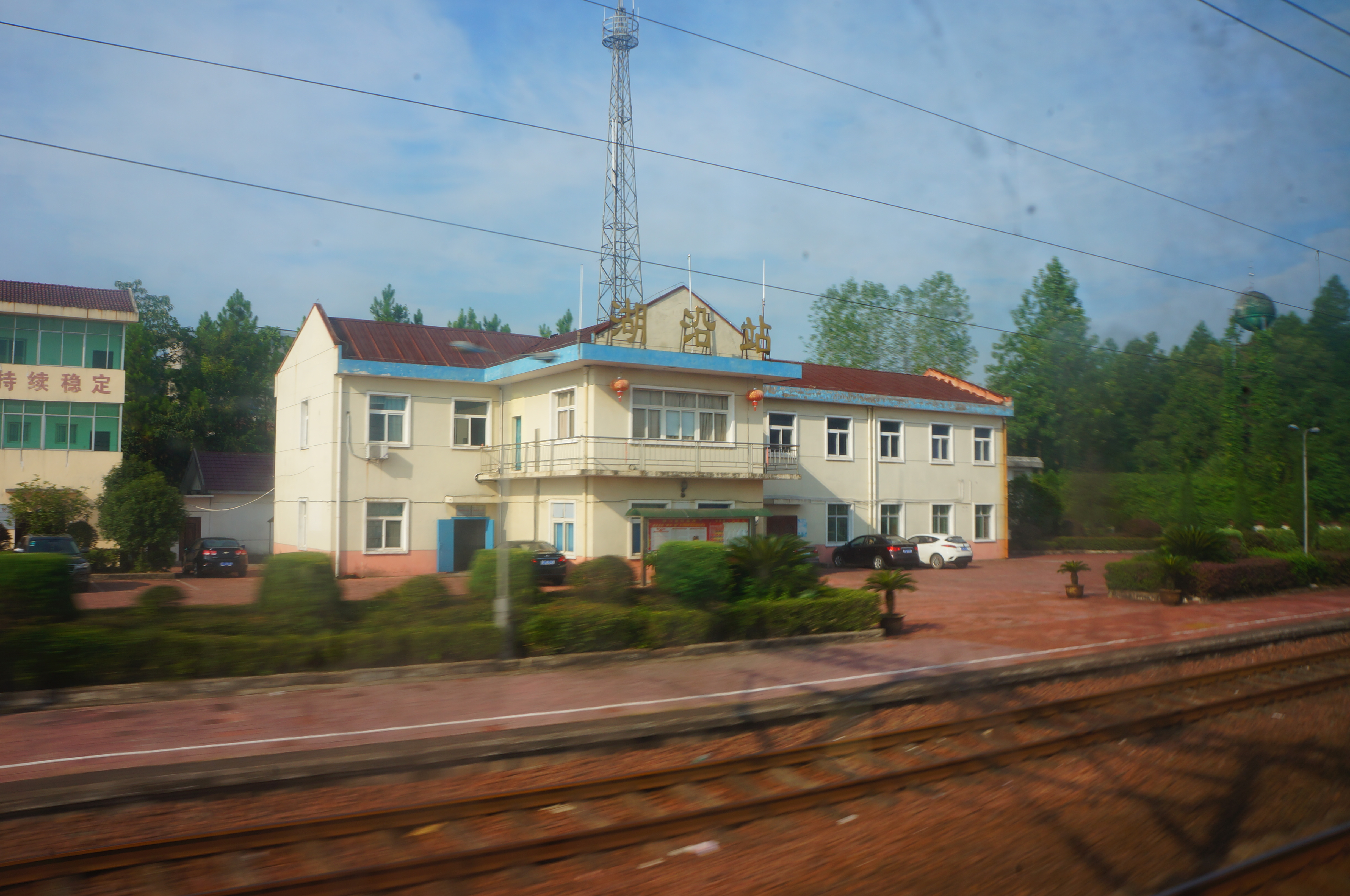 201708 Conductor of Huyan Station